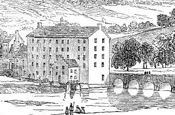 Illustration of Prendergasts gristmill which was demolished in Ardfinnan, County Tipperary, Ireland in the mid 19th century. - Early 18th century